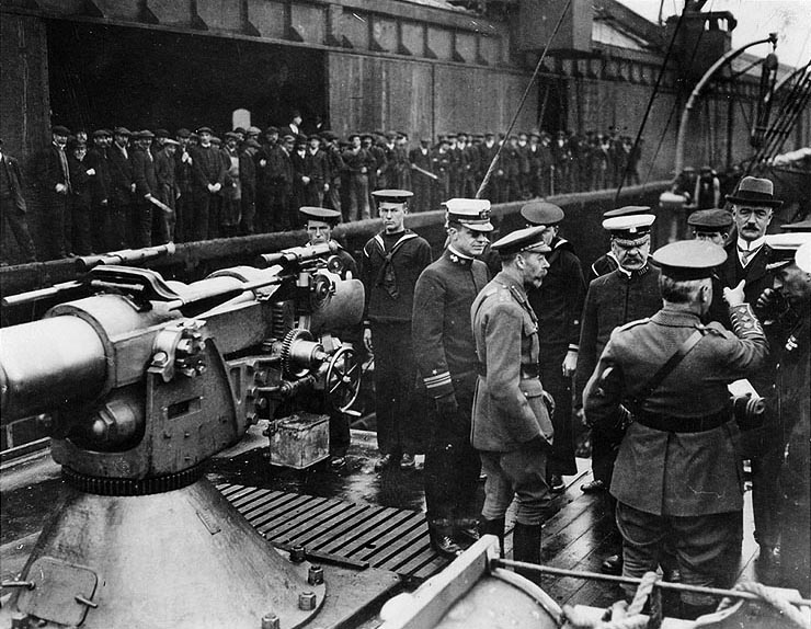 King George V, of England (center foreground, with beard) Inspecting the armament of the American troop transport Finland, at Liverpool during World War I, on 15 May 1917. Standing by the King's left shoulder is Lieutenant Commander Stanton L.H. Hazard, USN, who commanded the Navy gun crews on board the ship. The gun at left appears to be a 4"/40. This ship was USS Finland (ID # 4543) in 1918-1919 and was an Army-chartered transport in 1917. U.S. Naval Historical Center Photograph.